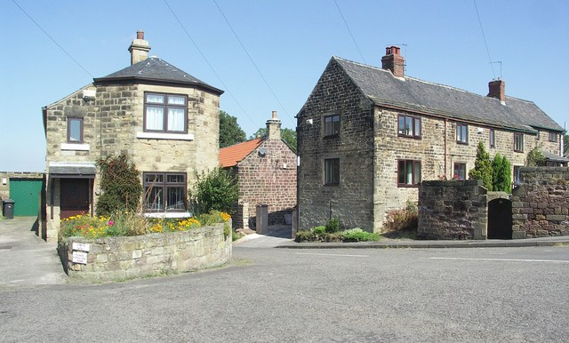 Houses on the A630, Hooton Roberts